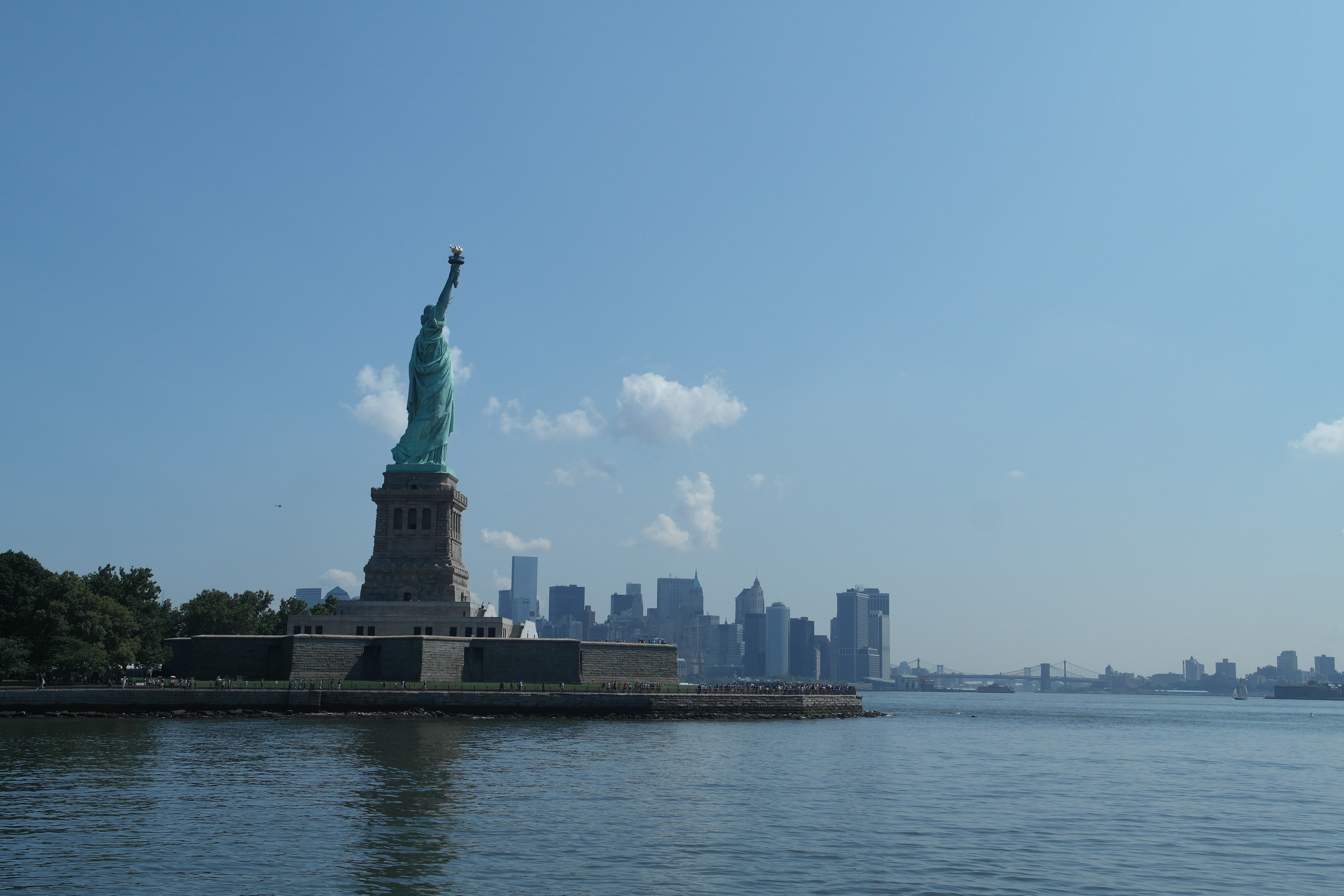 A symbol of America. A gift to the United States from the people of France in 1885. It was designed by Bartholdi.